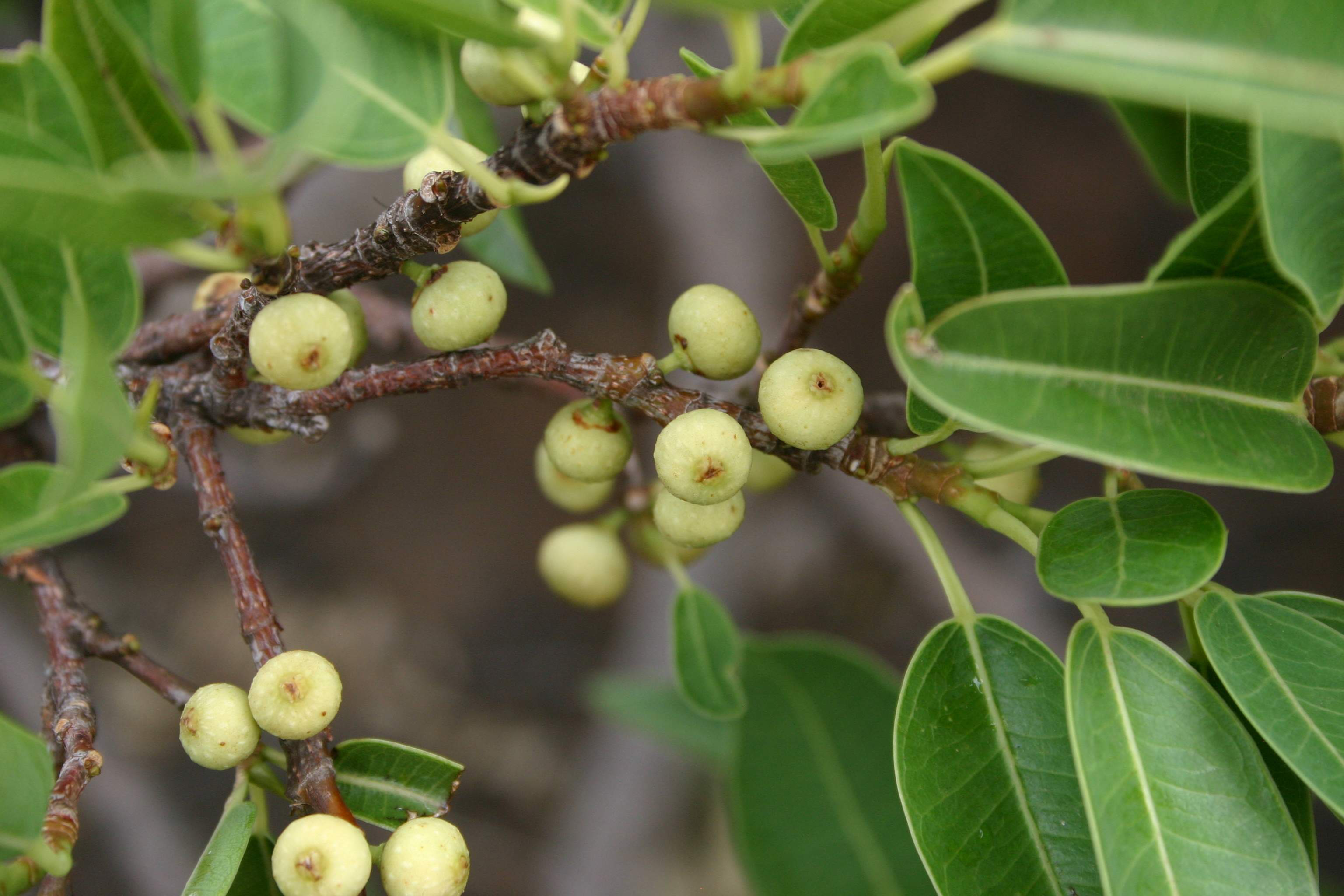 Ficus salicifolia leaves and fruit at Hamerkop near Sparkling Waters, Magaliesberg, South Africa